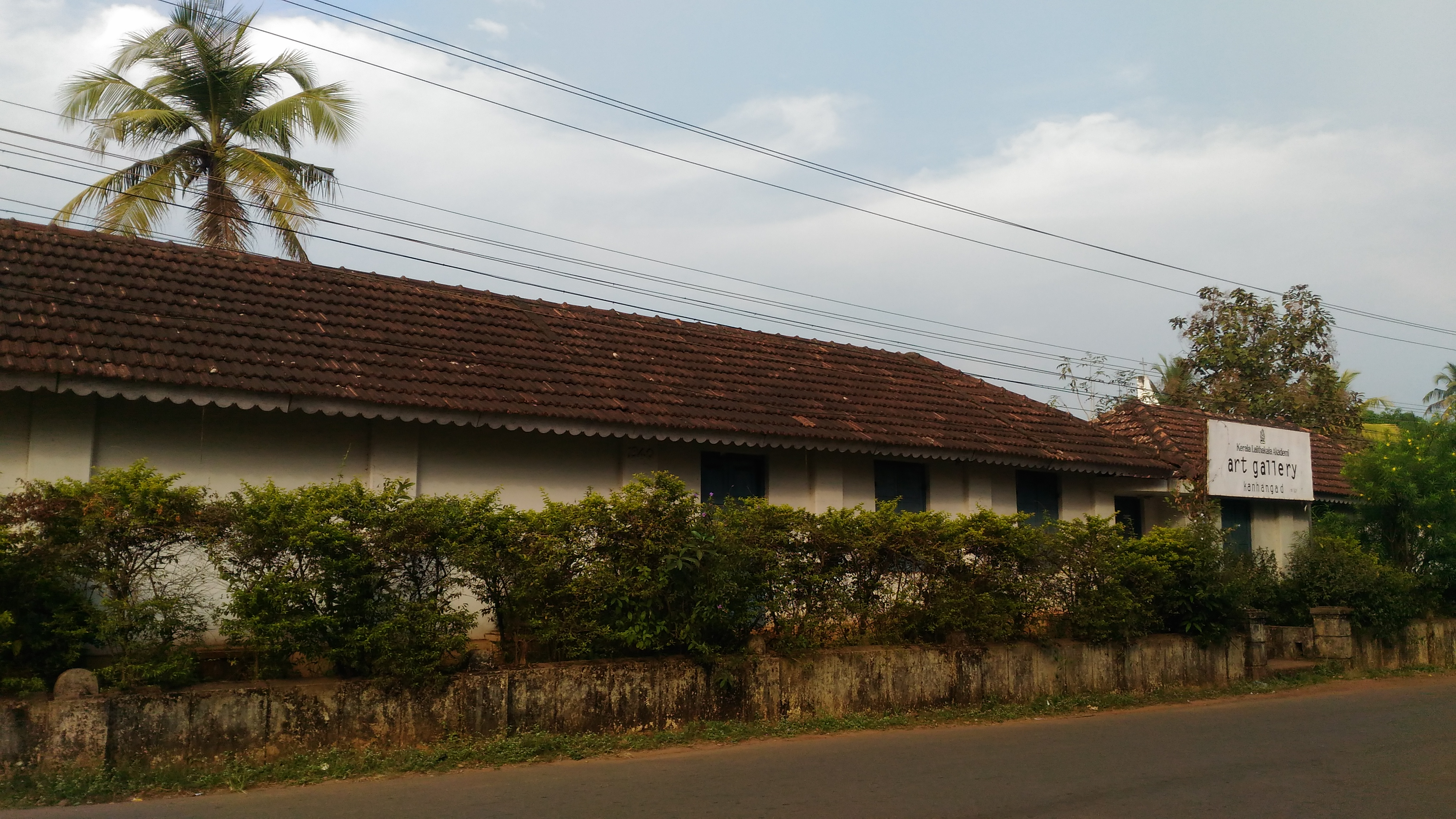 Art Gallery at Hosdurg in Kasaragod District of Kerala under the Lalithakala Academy